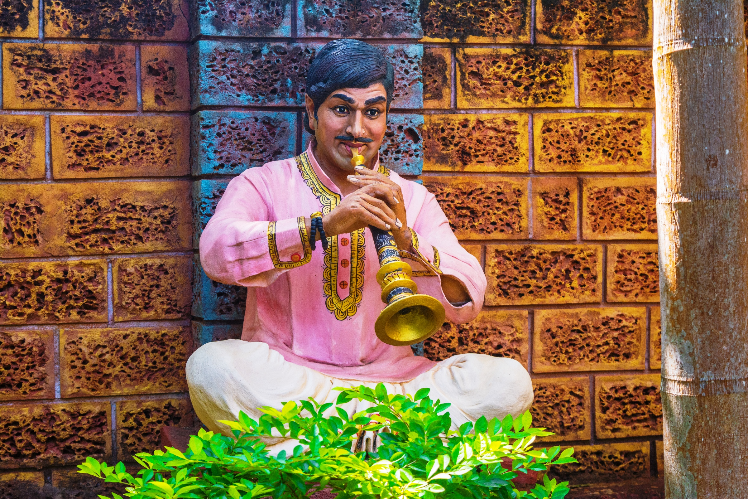 Dr Rajkumar Circle at Utsav Rock Garden